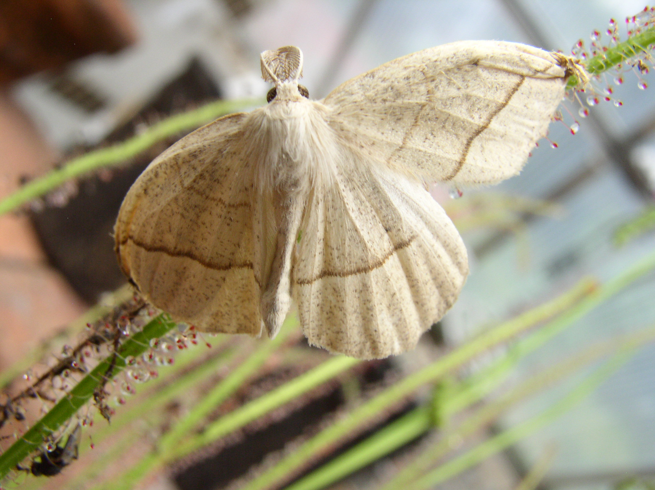 Eusarca confusaria moth trapped by Drosera filiformis. Wingspan 32 mm. Pennypack Restoration Trust, Montgomery County, Pennsylvania, USA.